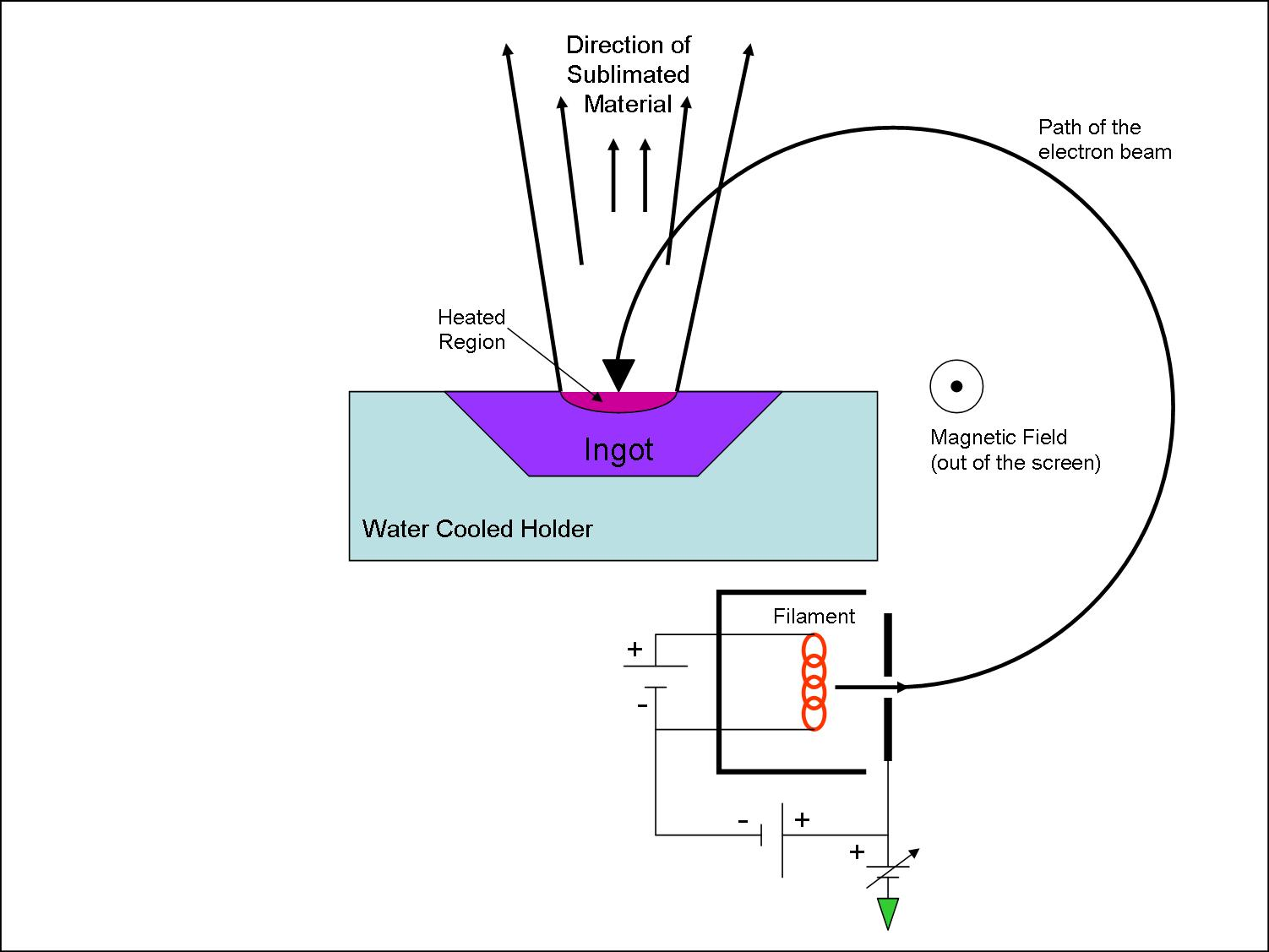 This image depicts an electron beam deposition scheme where there is no direct line of sight from the filament to the deposition material.